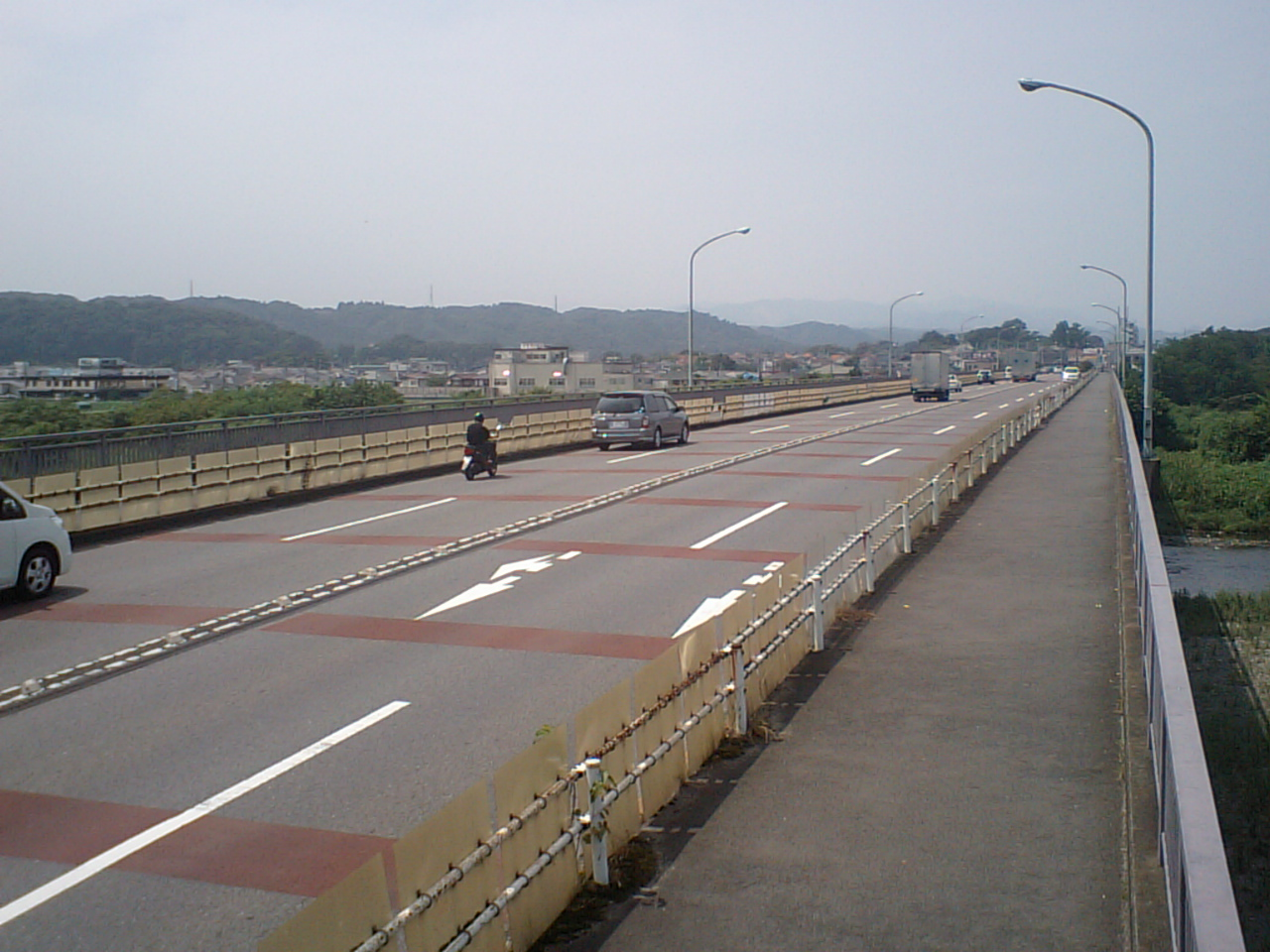 Fussa City TOKYO JAPAN